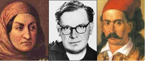 Picture gallery for use in ethnic-group infobox in Arvanites. Assembled from images: Lascarina Bouboulina (early 19th-century painting, pd-old, from Image:Bouboulina.JPG) Nikos Engonopoulos (photograph from licensed under GFDL, from Image:Nikos_Engonopoulos.jpg Markos Botsaris (early 19th-century painting, pd-old, from Image:MarkosBotsaris.jpg) Gallery made by uploader.